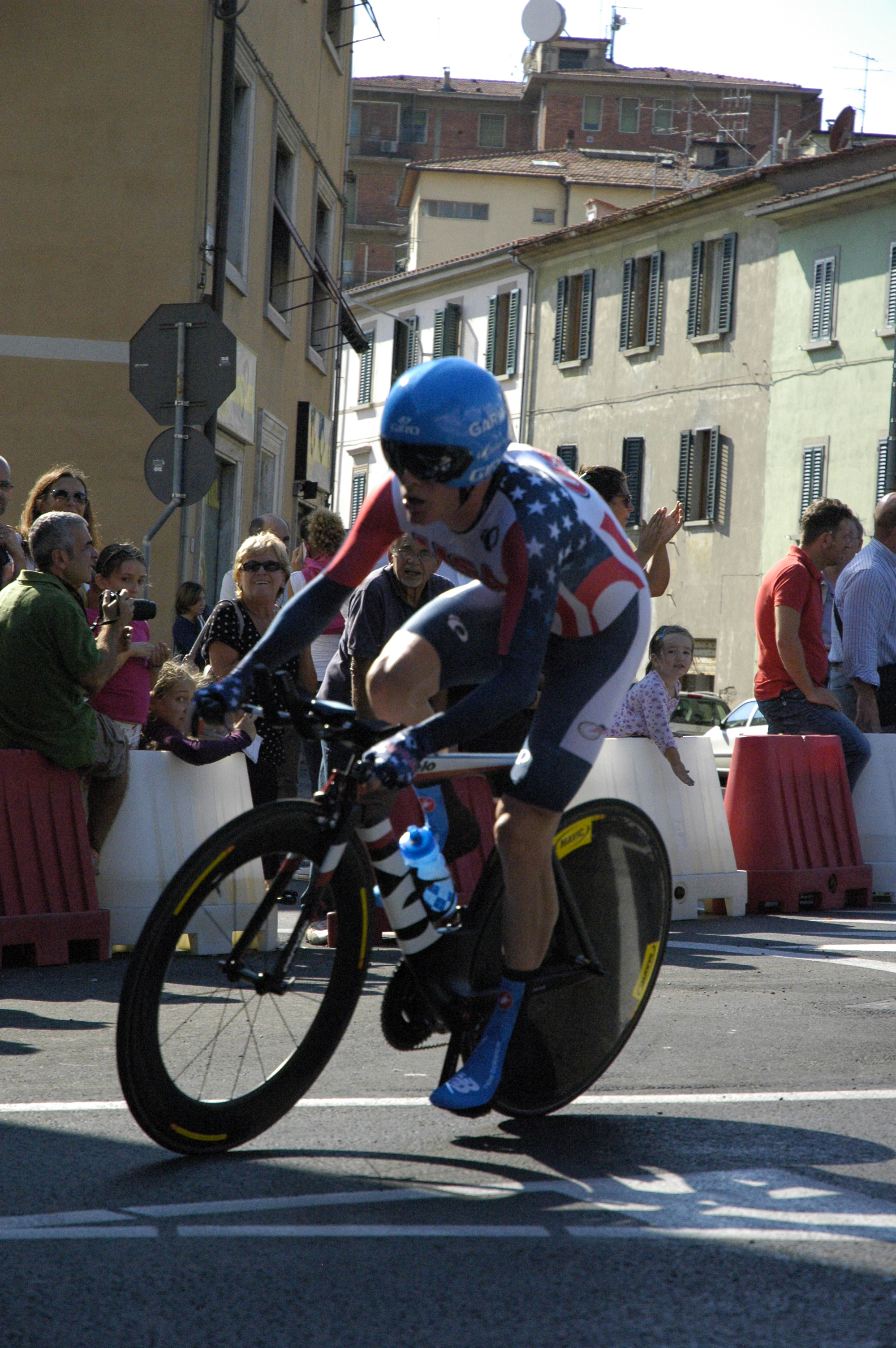 2013 UCI Road World Championships – Men's time trial